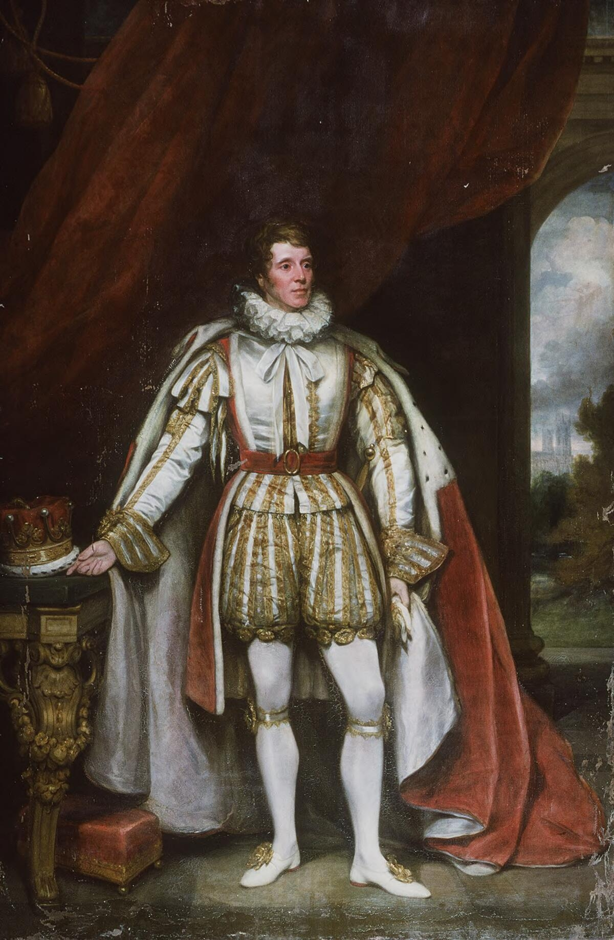 A painting from the Framed Works of Art collection at the National Library of wales.